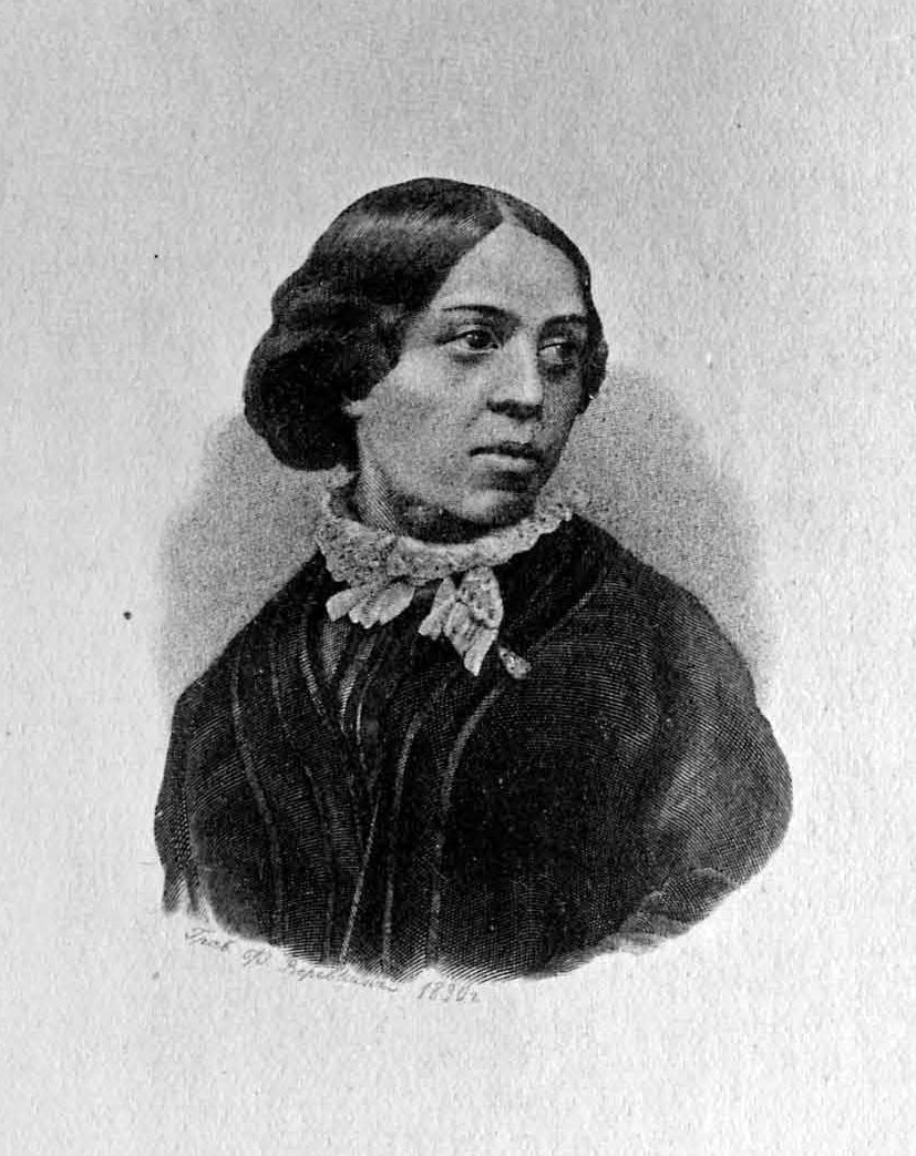 The Russian Writer Nadezhda Khvoshchinskaya